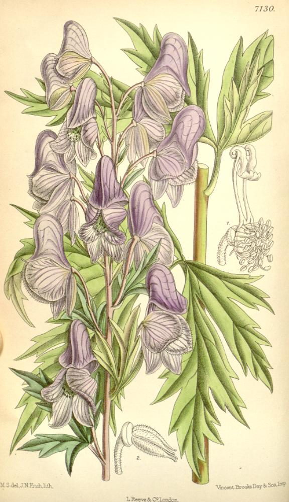 Illustration of Aconitum fischeri